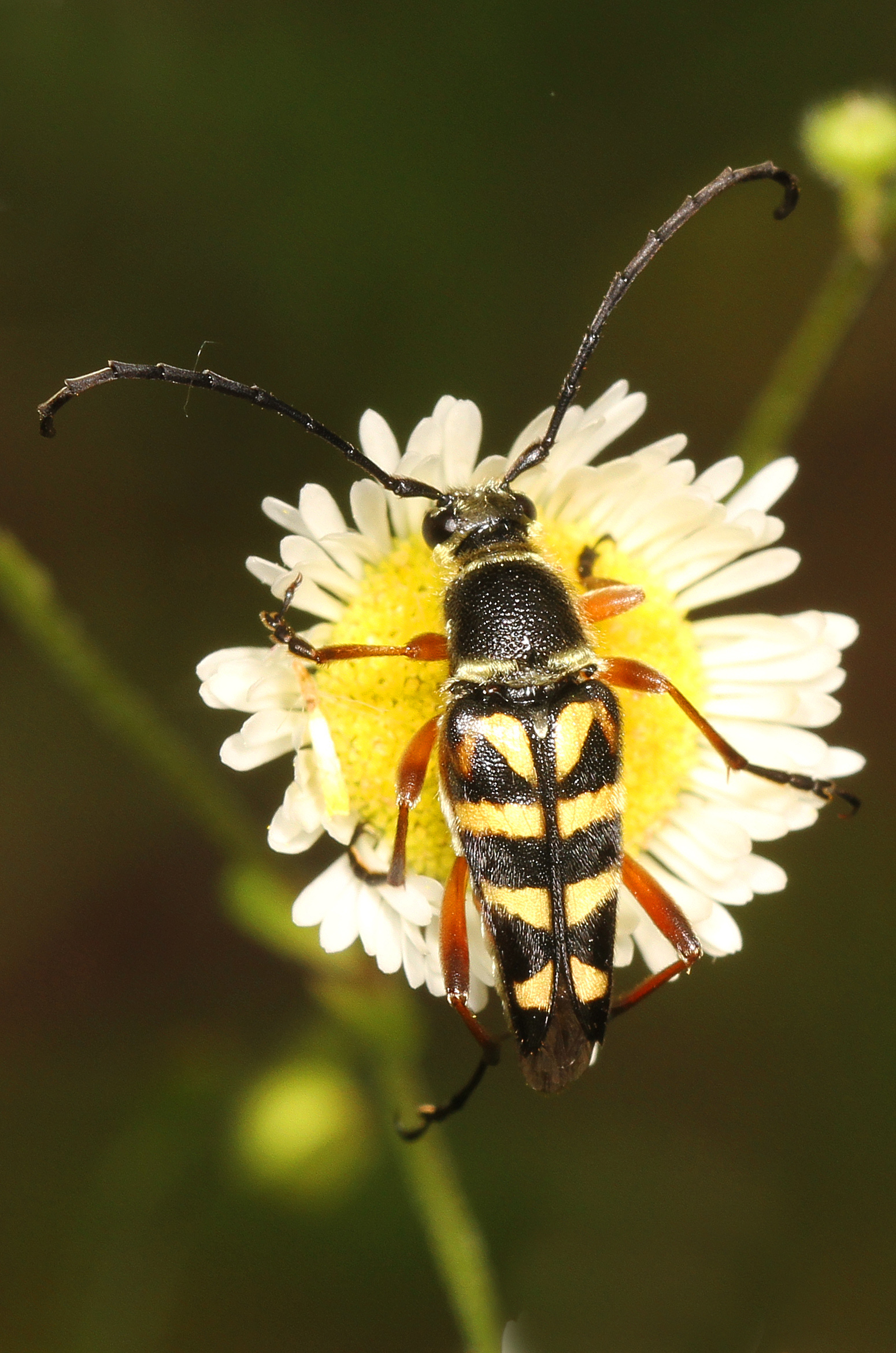 Zebra Flower Longhorn - Typocerus zebra, Patuxent National Wildlife Refuge, North Tract, Laurel, Maryland. Anne Arundel County, Maryland